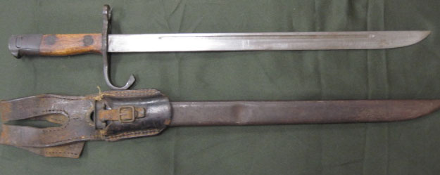 Accession: 77-127-B Bayonet, Japanese, Type 30 19.25"L 1897-1945 Bayonet has a hooked quillion but no serial number or discernible arsenal marks. Bayonet was attached to a Japanese Type 38 6.55mm "Ariska" Rifle which is alo part of the collection. Collection of Curator Branch, Naval History and Heritage Command.